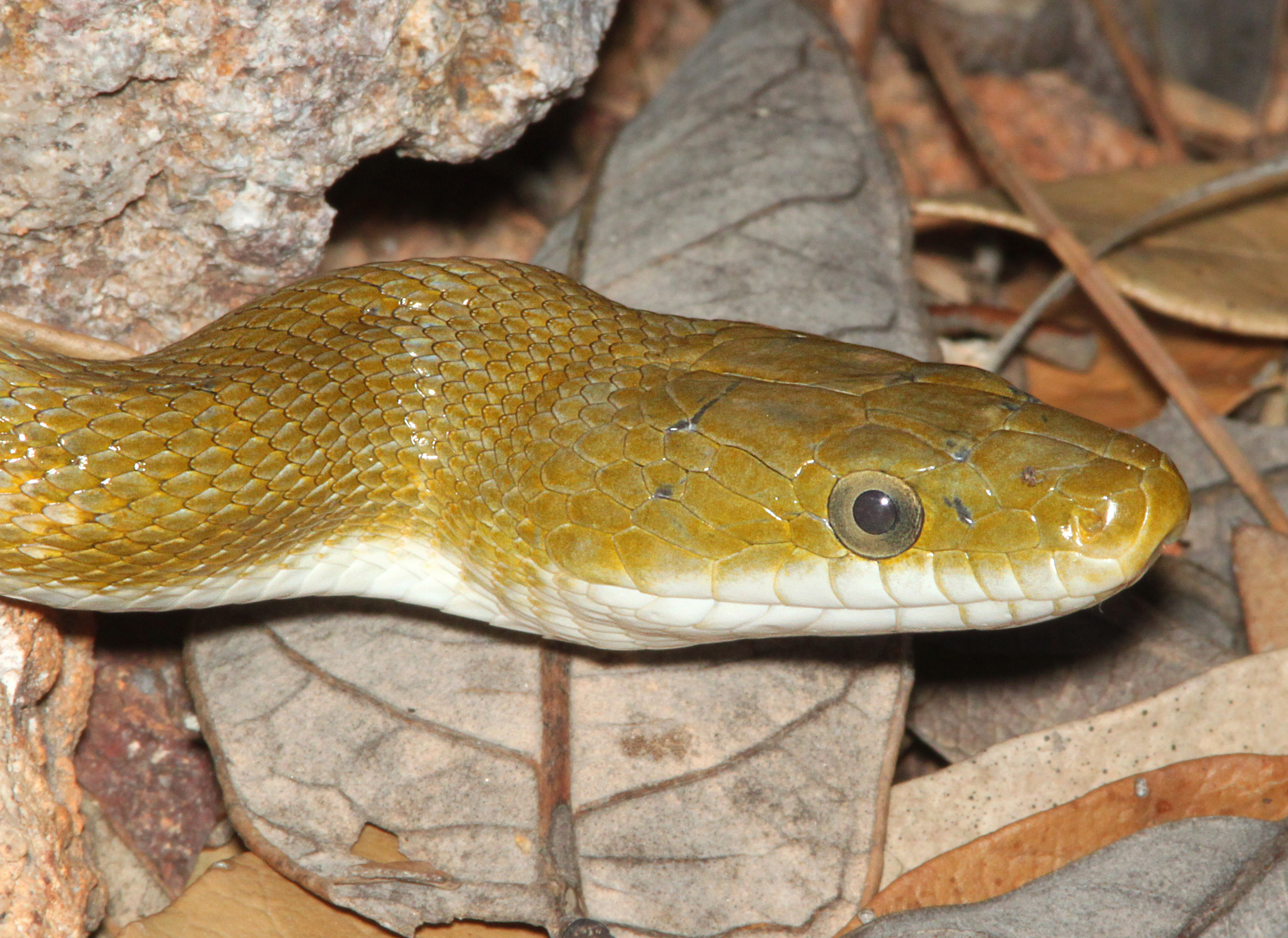 LIZARDS, SNAKES, FROGS, etc